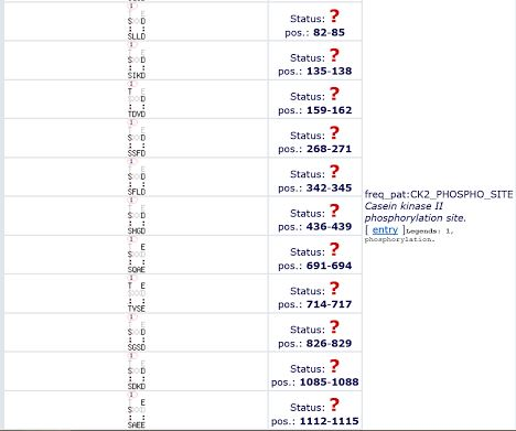 motif scan